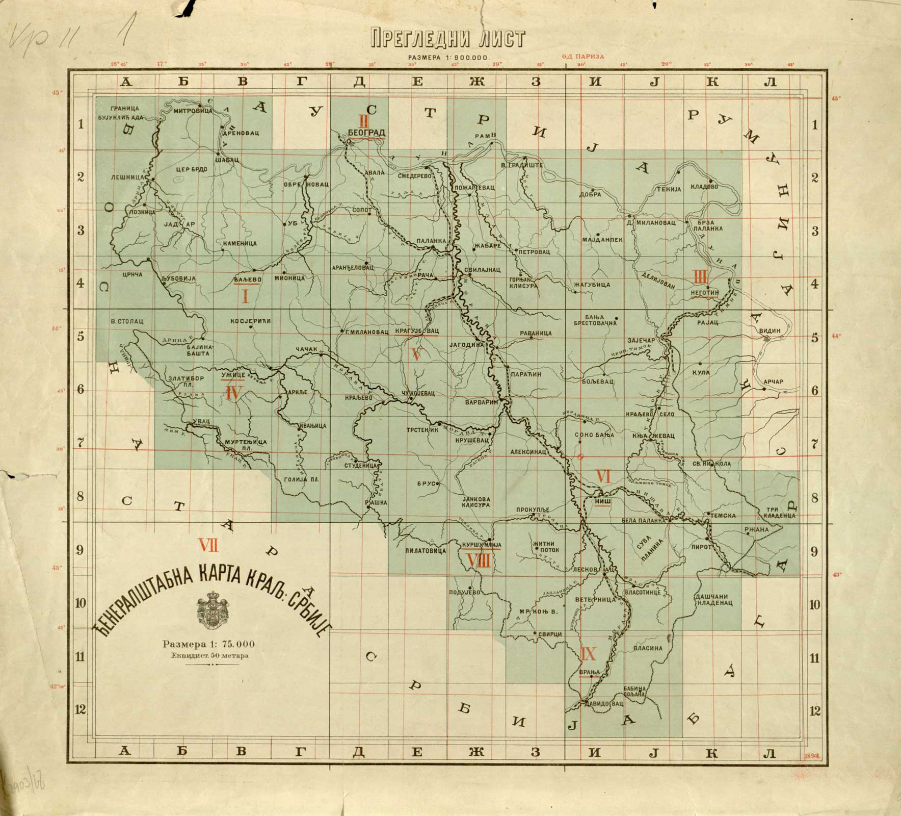 Digital copies of the Đeneralštabna map of Serbia. The map is printed in Belgrade, the 1894th , in 94 sections, with a topographic key and in scale 1:75.000. This is the first special military map of Serbia was published in the country.